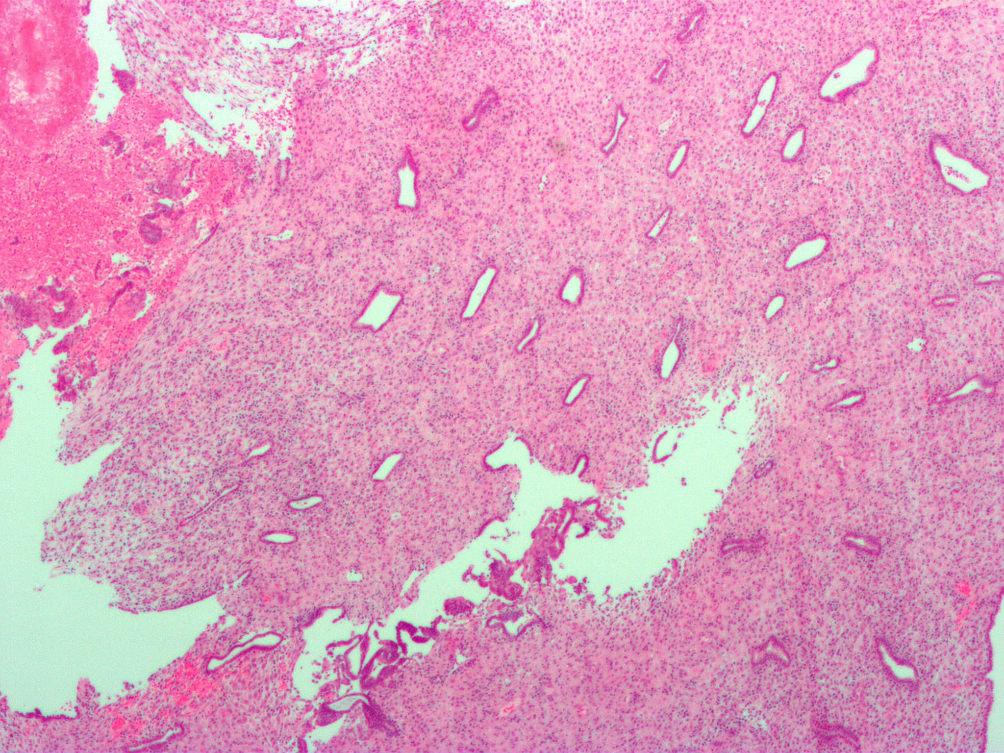 Low magnification micrograph of endometrium with (mitotically) inactive glands and decidualization due to exogenous progesterone (OCP use). H&E stain. Endometrial curretting specimen. Definitions: Inactive (endometrial) glands have a single layer of cells and no mitotic activity. Decidualization is characterized by NEW changes: Nucleus central location, Eosinophilia of cytoplasm, Well-defined cell borders. It is in response to progesterone and also seen in pregnancy. Related images Intermediate magnification High magnification Very high magnification